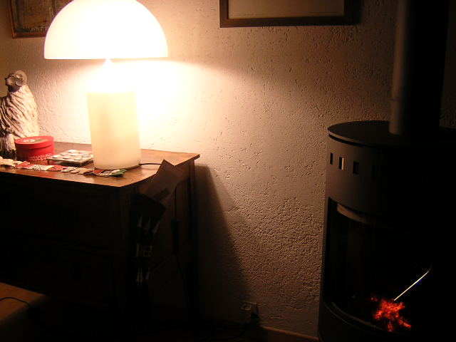 Atollo lamp by Vico Magistretti (X-mas time).